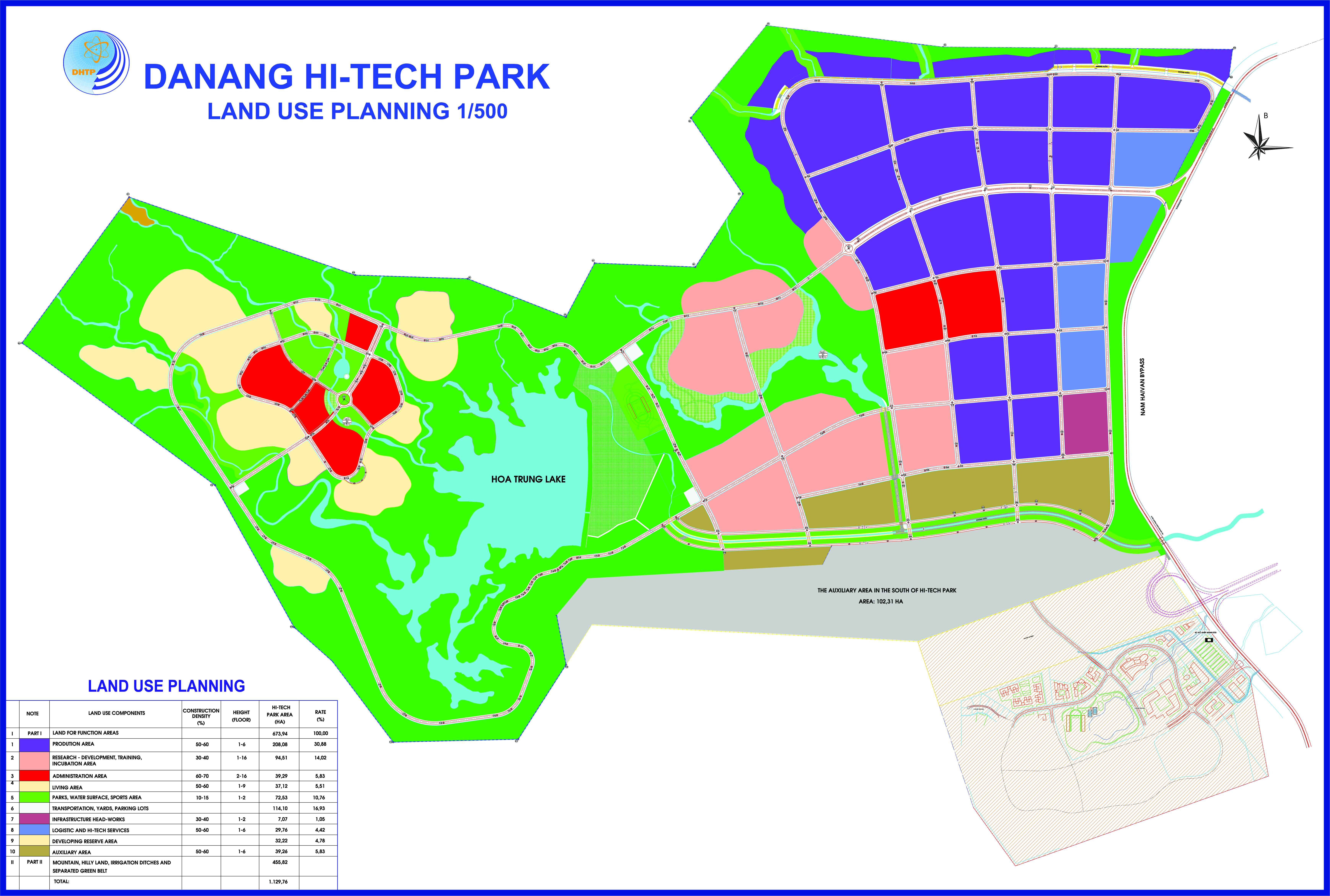 Land use planning of Danang Hi-Tech Park